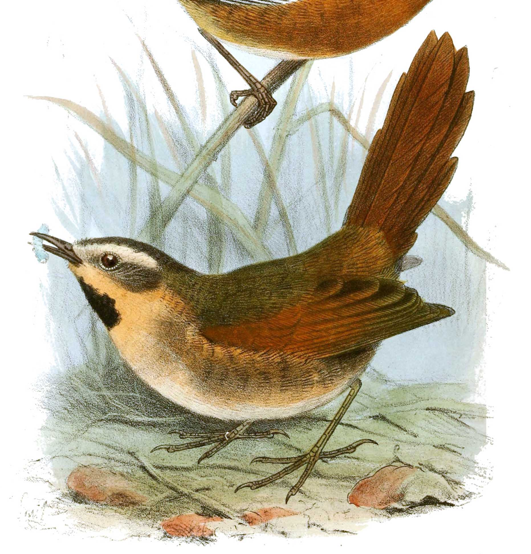 « Synallaxis withii » = Synallaxis scutata withii (Subspecies of Ochre-cheeked spinetail)